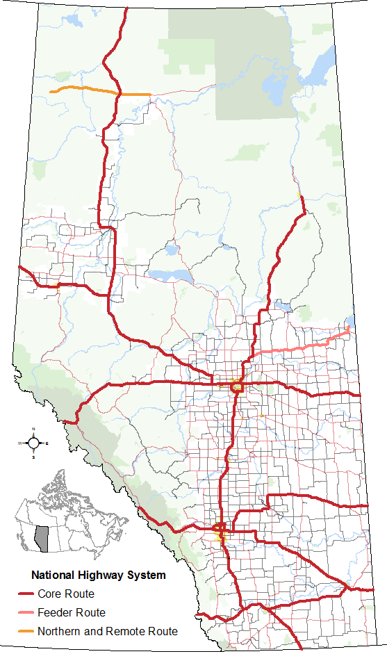 The segments of highways within Alberta's provincial highway system that are designated part of Canada's National Highway System with other base features including the balance of Alberta's provincial highway system, hydrography, national/provincial parks, cities and city equivalents, and the provincial green and white zones.